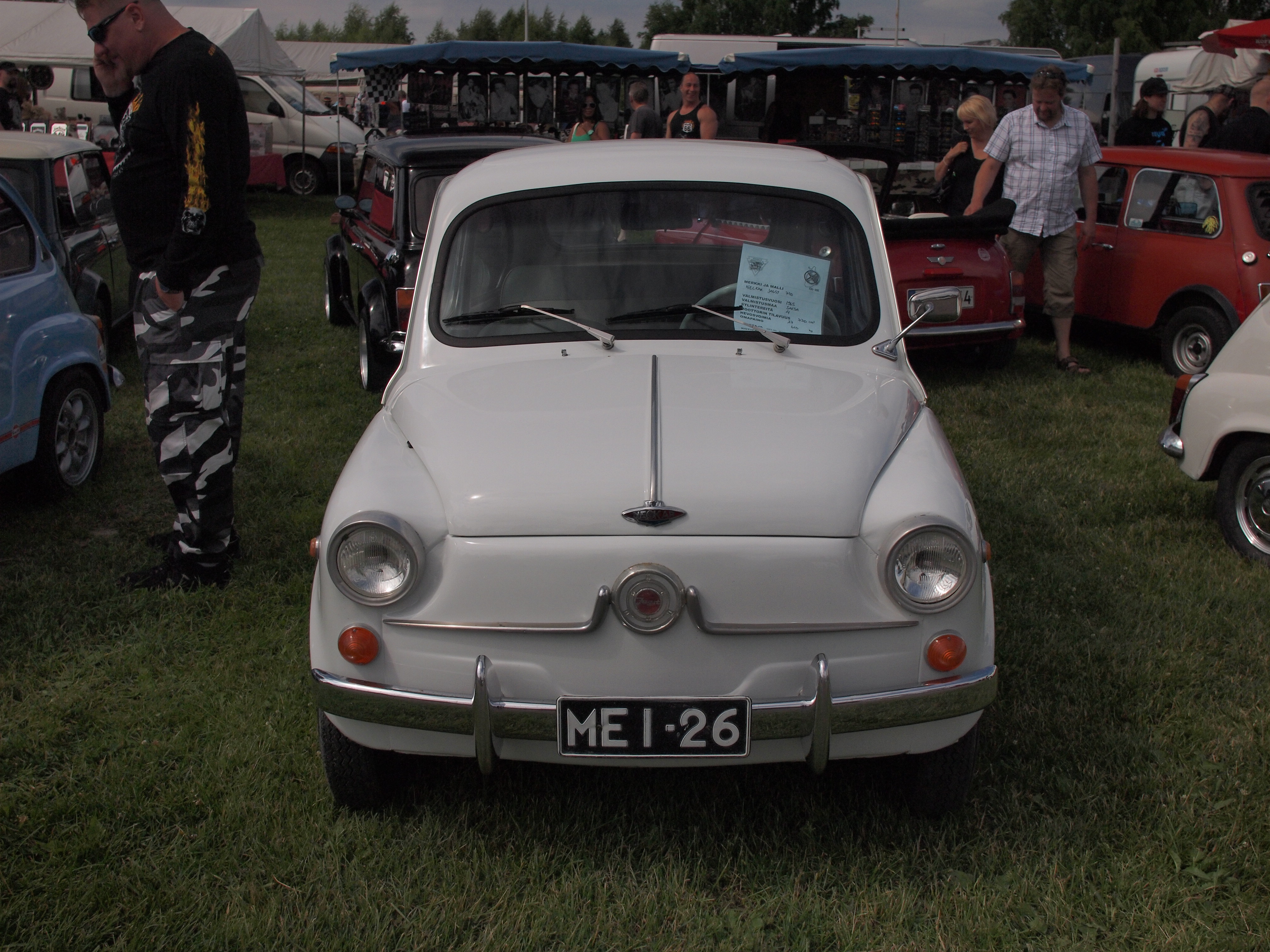 White Jagst 770 from 1965. Neckar Jagst was a variant of FIAT 600.